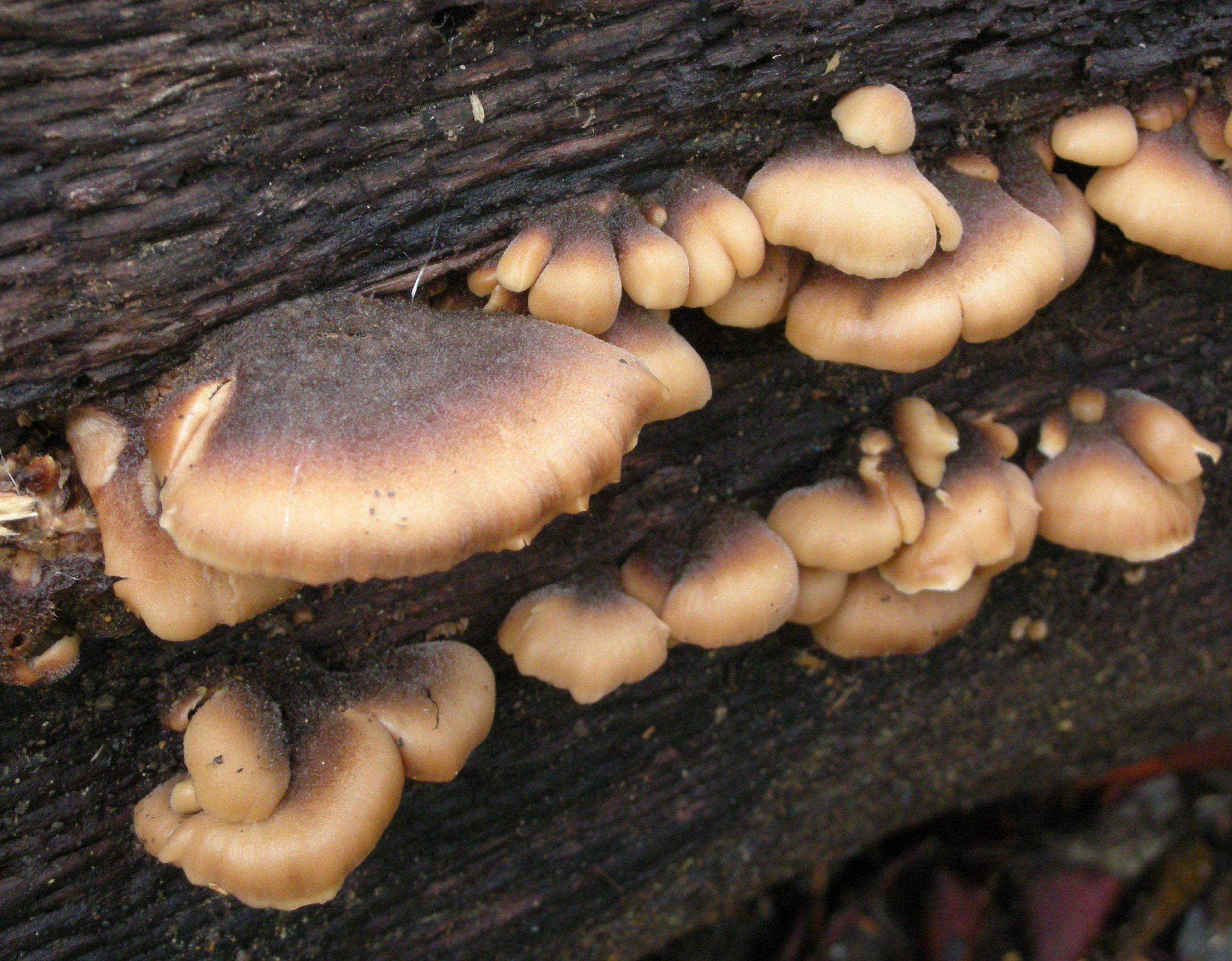 Lentinellus ursinus (Fr.) Kühner Image location: Bon Tempe Reservoir, Marin Co., California, USA White spores, amyloid and ~ 4.0 X 3.2 microns, with some spikes. Recognized by sight For more information about this, see the observation page at Mushroom Observer.